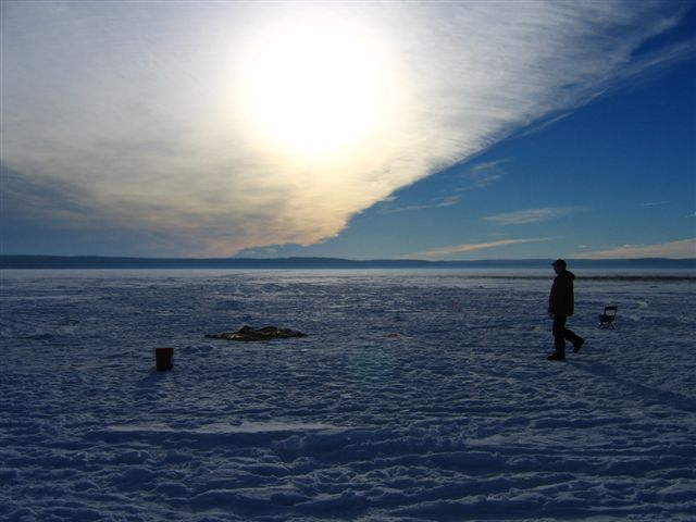 This is a picture taken on Pineheurst Lake in Nothern Alberta, Canada in January 2005.